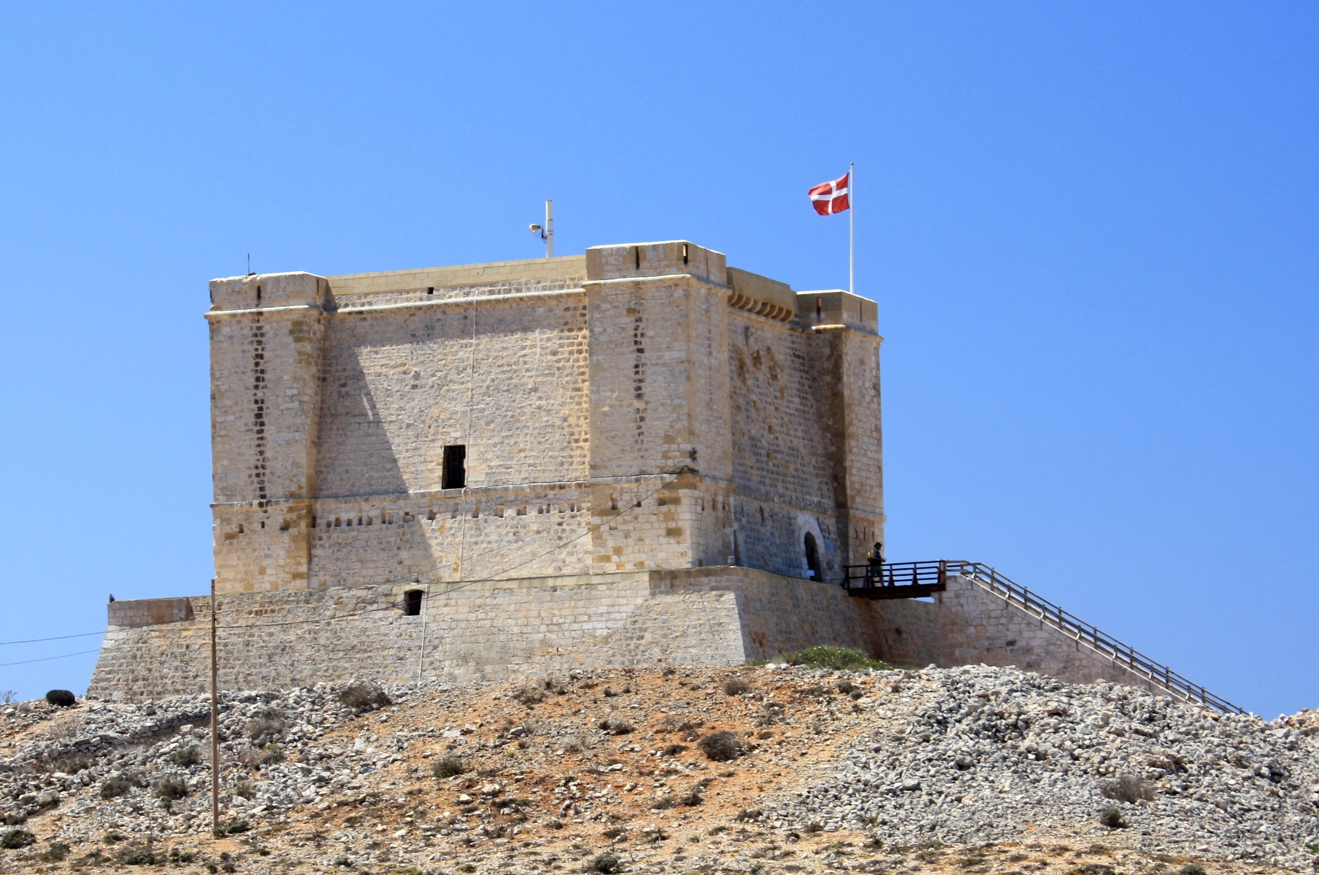 The Santa Marija Tower on Comino, Malta.